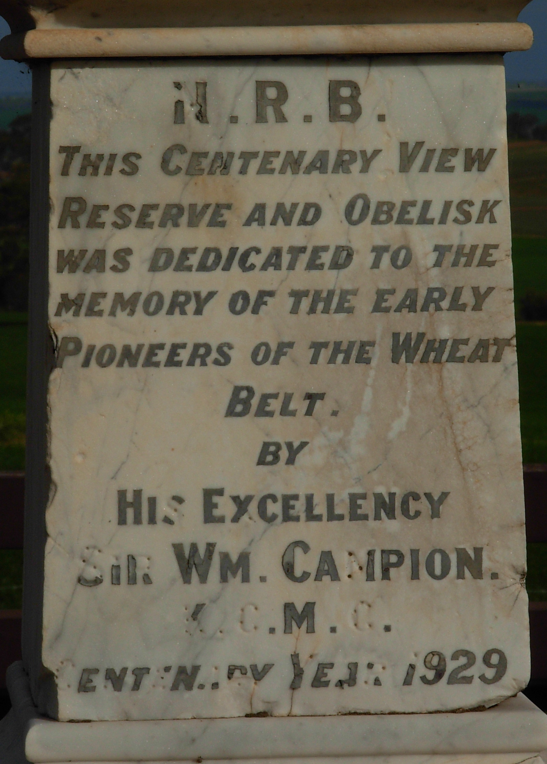 Memorial obelisk on top of Centenary Hill, corner of Southern Brook & Habgood Roads, east of Northam, Western Australia. The obelisk was erected by William Campion in 1929, as part of the Centenary of Western Australia to commemorate the pioneers who settled in the Wheatbelt region.